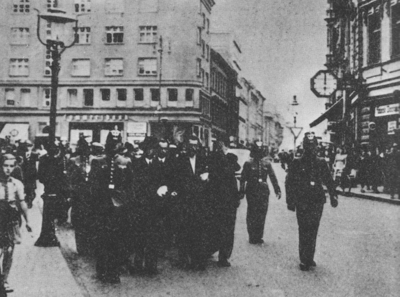 Fall 1938 - German police zatýká in occupied Sudety politically undesirable person